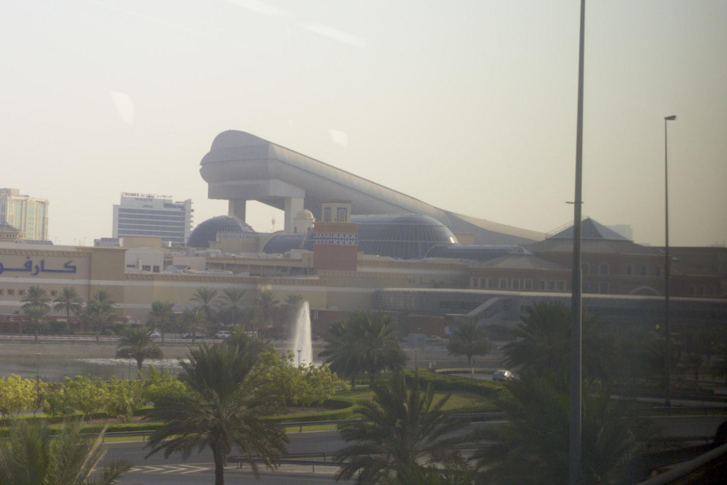 The outside view of Ski Dubai, Dubai, UAE.